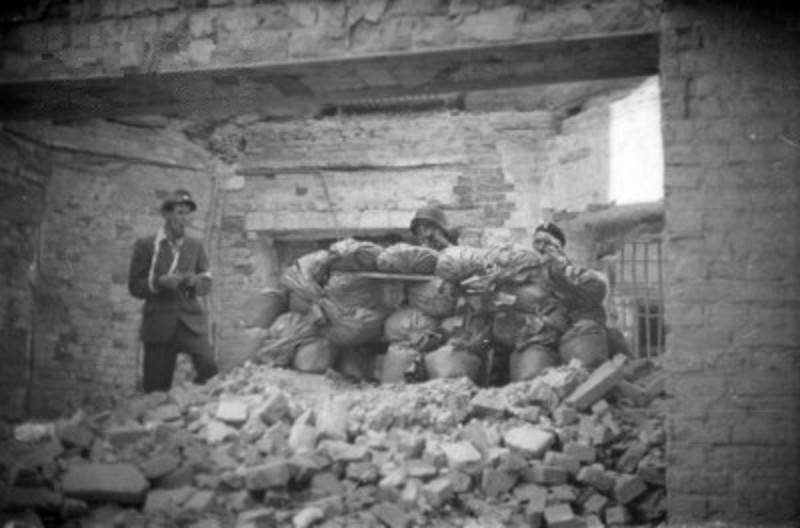 Warsaw Uprising: Insurgents at Królewska Street across Saxon Gardens.